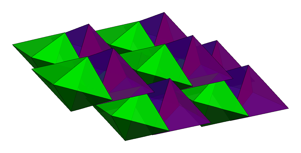 The currently (2014) densest known packing structure for regular tetrahedra fills 85.63% of space